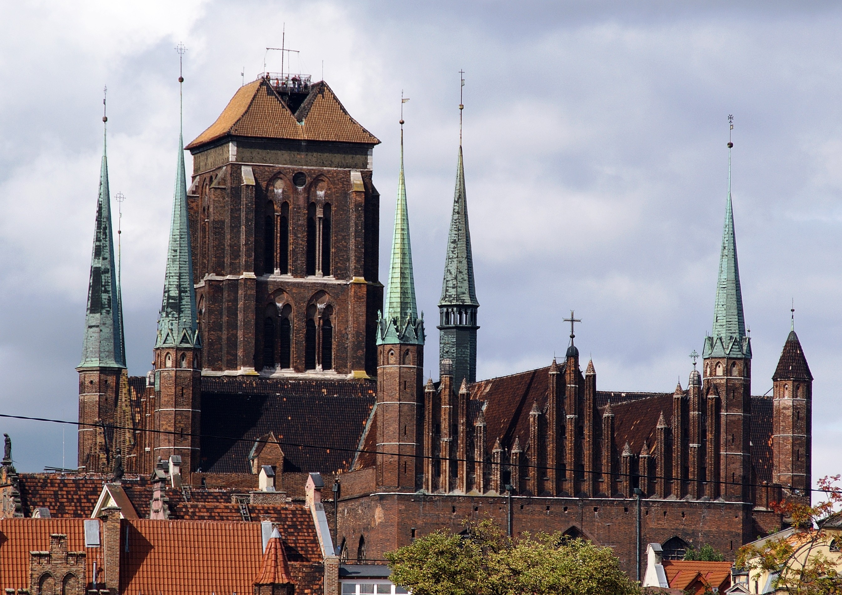 Gdańsk, St. Mary's Church